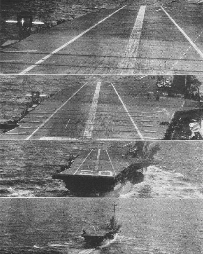 Four pictures showing the landing abord the U.S. Navy aircraft carrier USS Bennington (CVA-20) in 1955 with the aid of the then newly developed landing mirror as seen from the approaching aircraft.